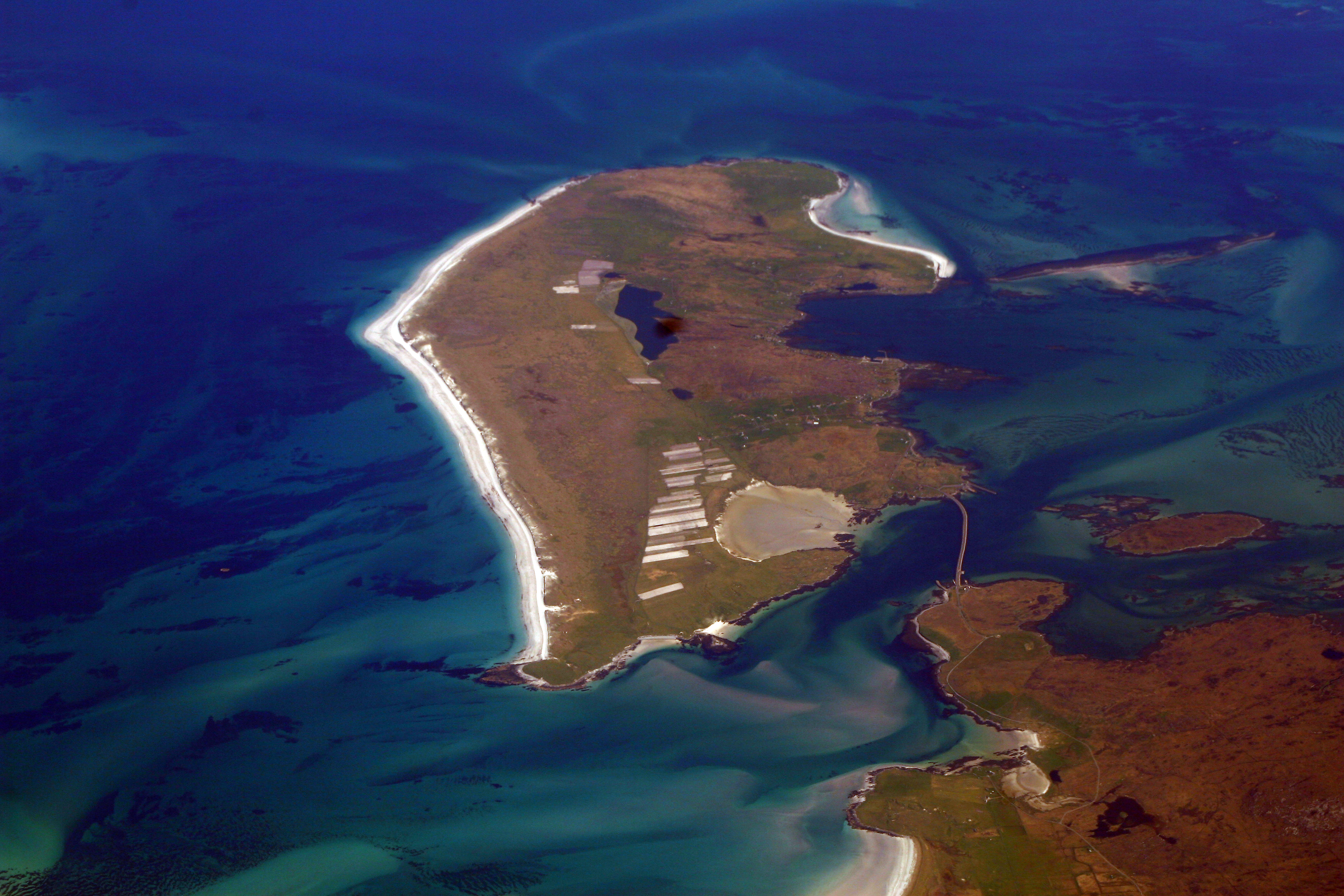 Berneray Island in the Outer Hebrides.